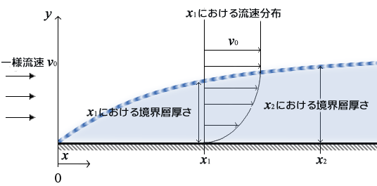 Boundary Layer